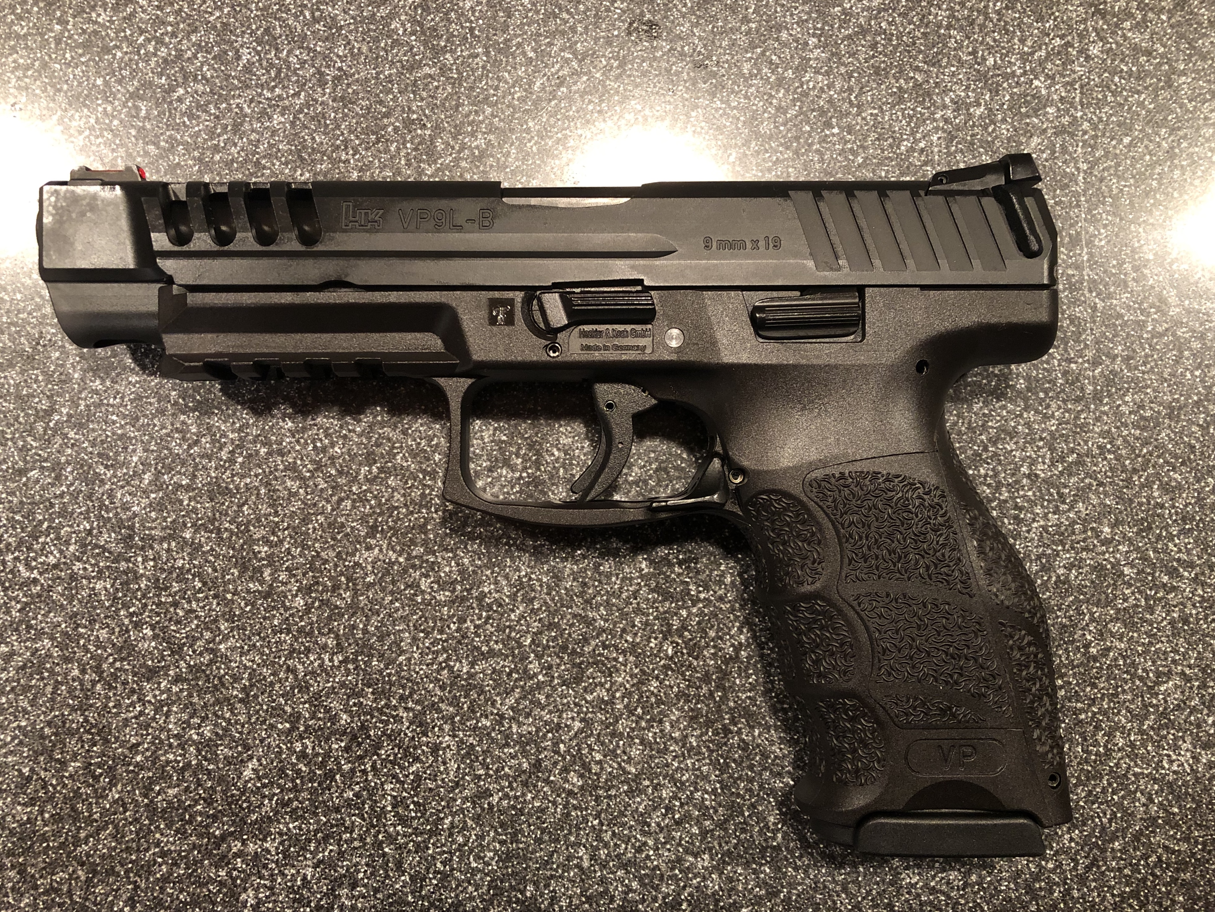 "Long slide" version of the Heckler & Koch VP9, a polymer-framed semi-automatic striker-fired handgun.